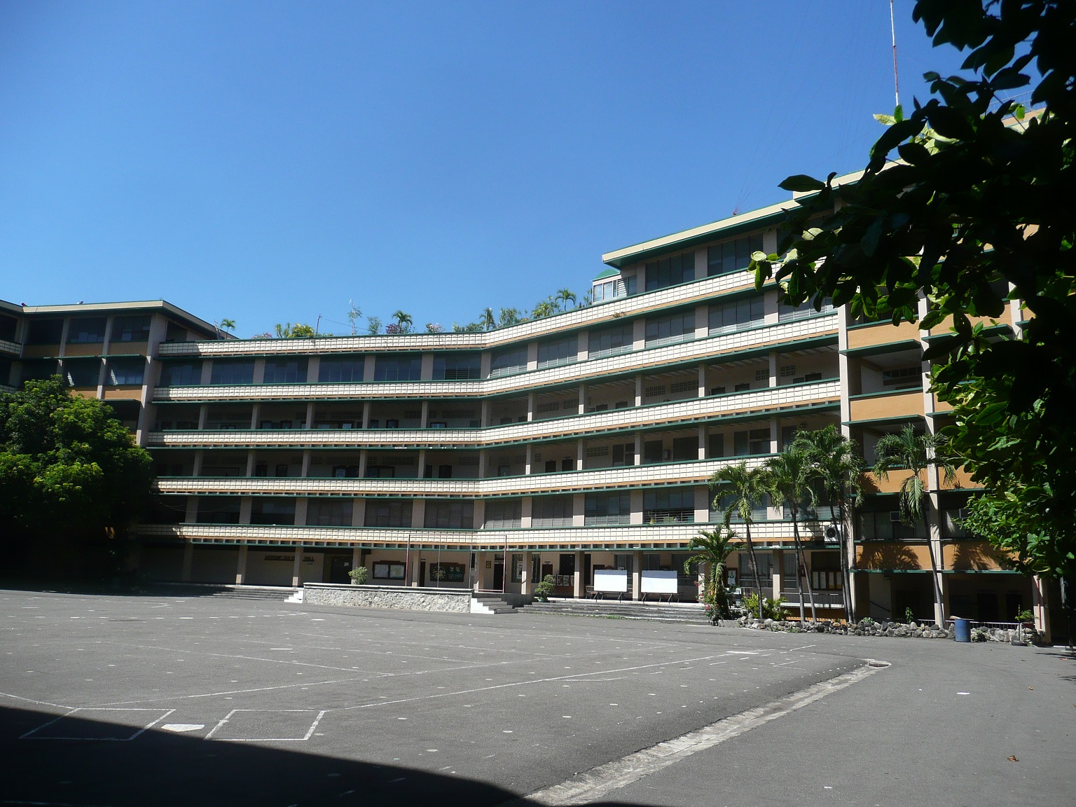 University of San Carlos, College of Education, South Campus